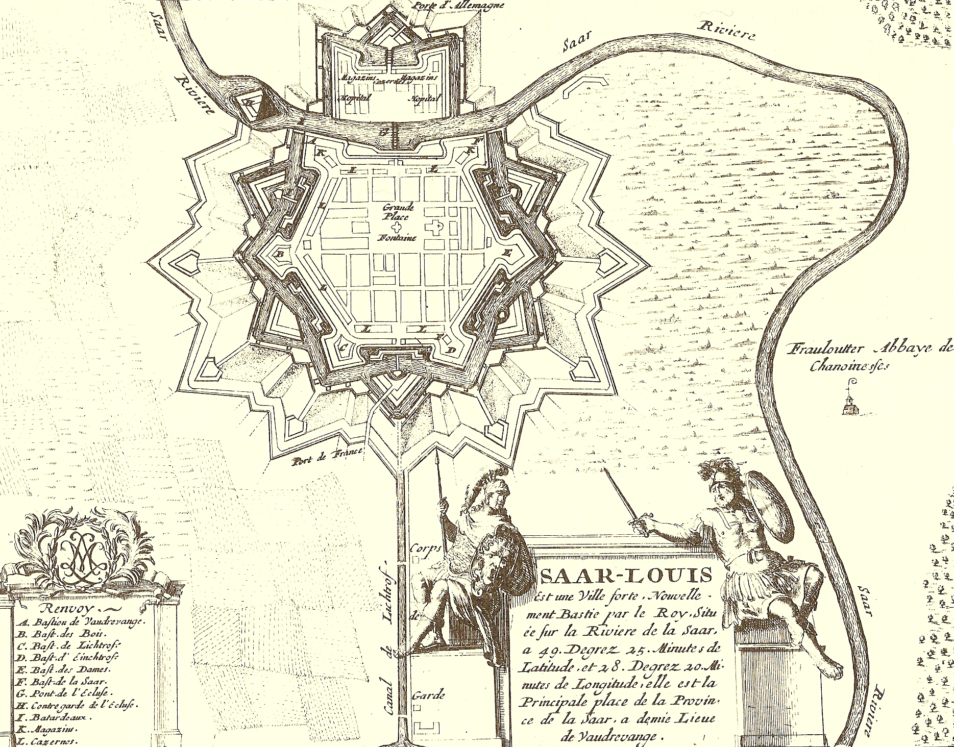 Old print showing the ground plot of the former fortress of Saarlouis